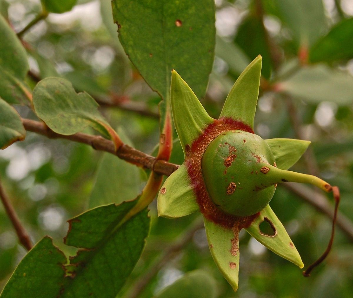 Young Sonneratia caseolaris fruit. From Labuan Bakti, Simeulue, Indonesia.